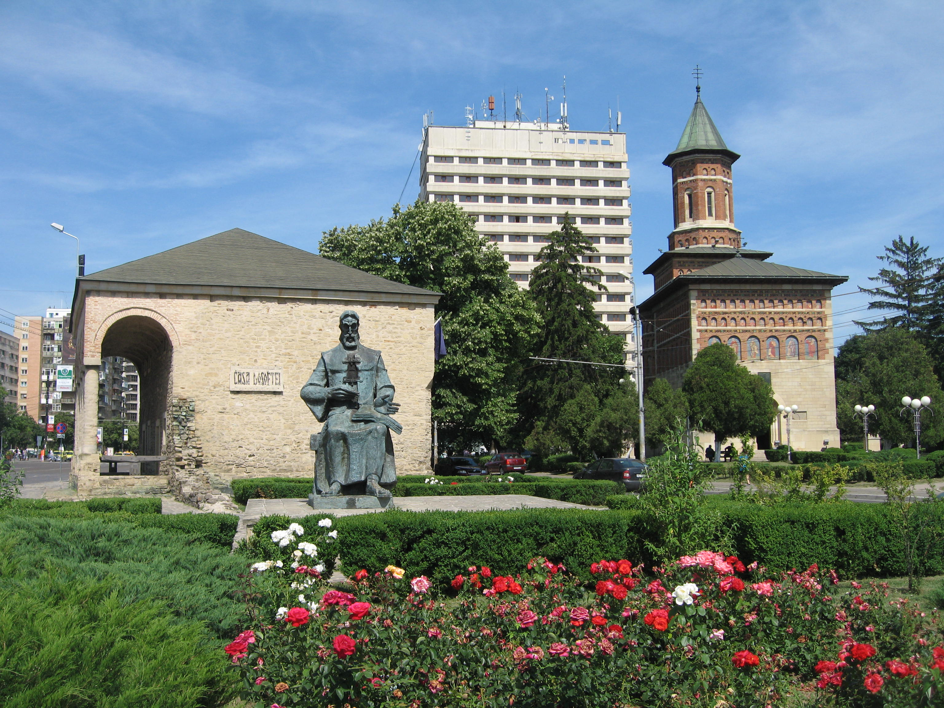 Iasi , Dosoftei House and "St.Nicholas Royal" Church , Iaşi , Romania